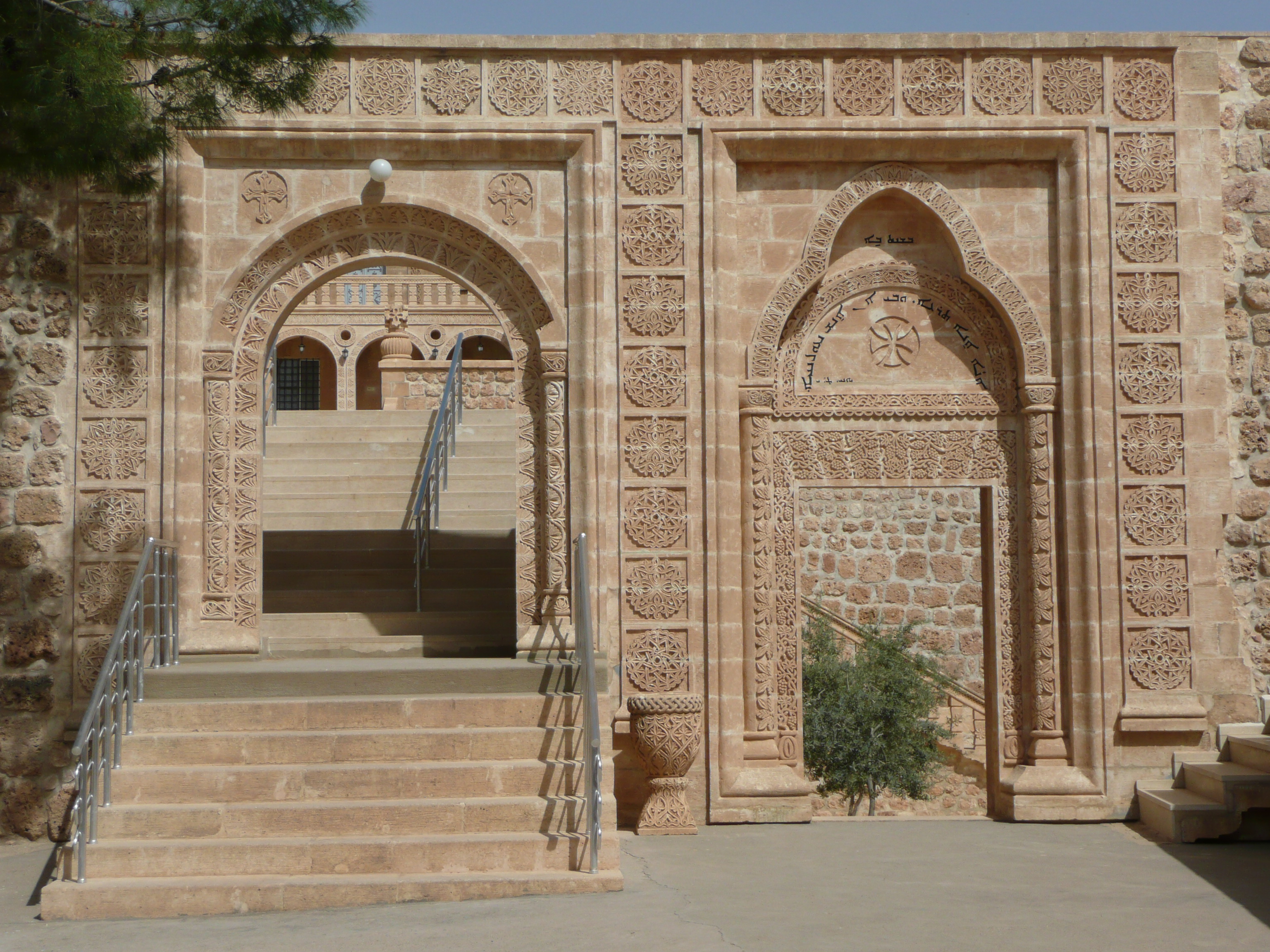 Photographs from Deyrulumur (Mor Gabriel Monastery) , Midyat, Turkey